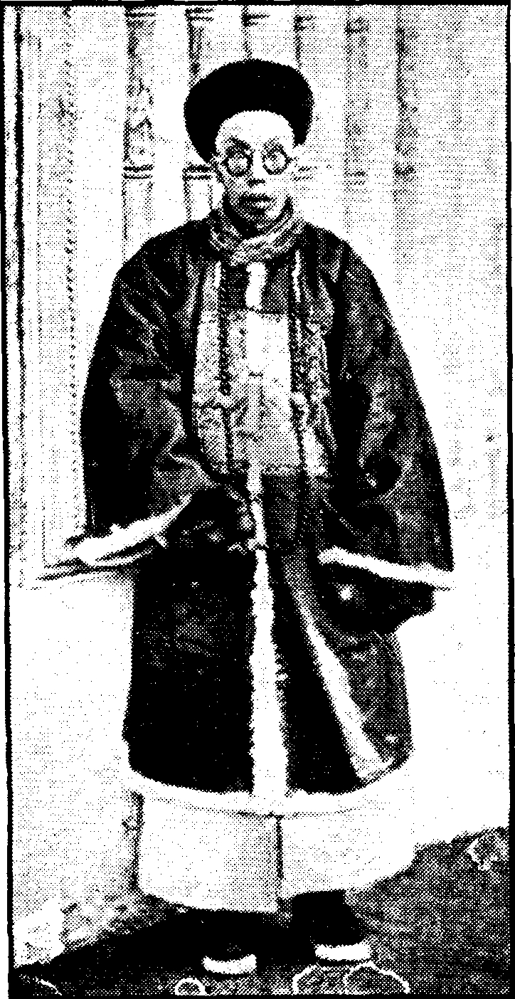 Picture of mandarin, Chinese official.